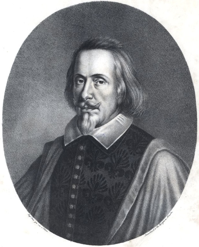 Hugo Friedrich von Eltz (1597-1658)